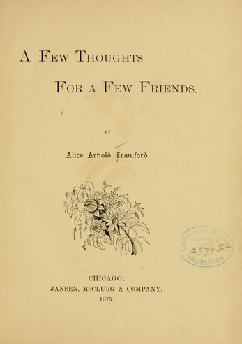 Frontispiece: A Few Thoughts For a Few Friends, by Alice Arnold Crawford (1875)